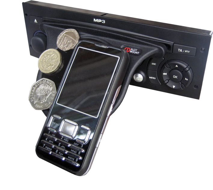 CD Slot Mount British Invention of the Year